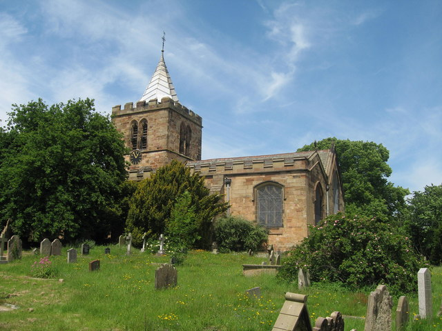 St. Deiniol's Church, Hawarden St. Deiniol's church has a history of over a 1000 years, there is a list of known Rectors dating back to 1180. Considerable damage was caused to the ancient church by a fire, started deliberately, on the night of the 29th of October 1857. Fortunately the parish registers were rescued by a young parishioner named Richard Hammond, who entered the burning building by breaking through a window. After rebuilding, the church was re-opened on the 14th of July 1859.